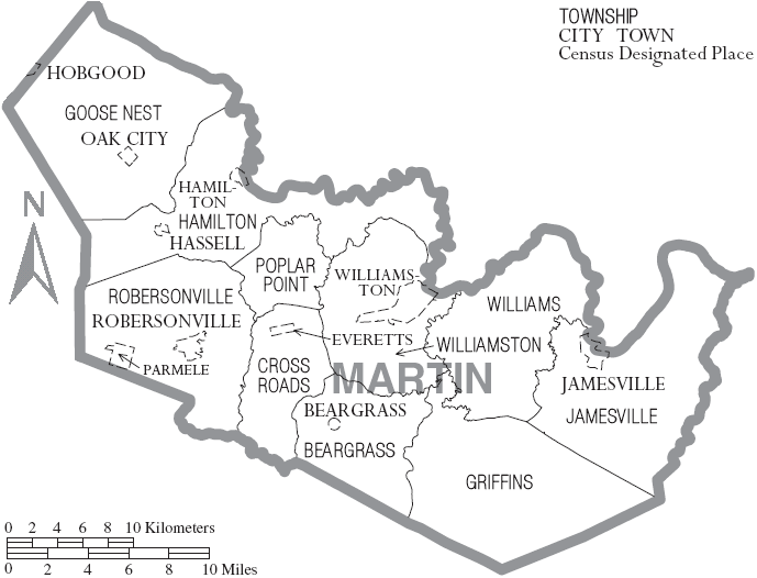 Map of Martin County, North Carolina, United States with township and municipal boundaries